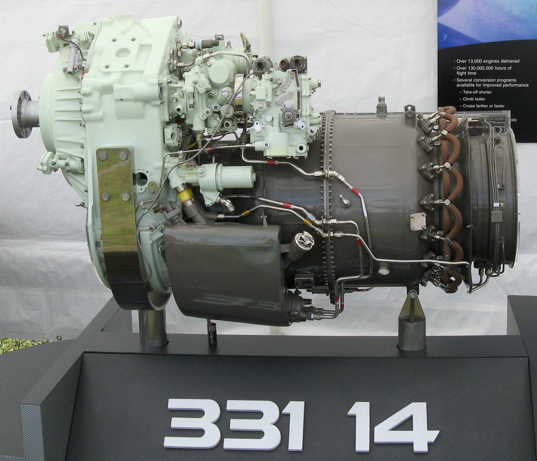 Honeywell (Garrett) TPE331-14 turboprop, Sun 'N Fun airshow, Florida